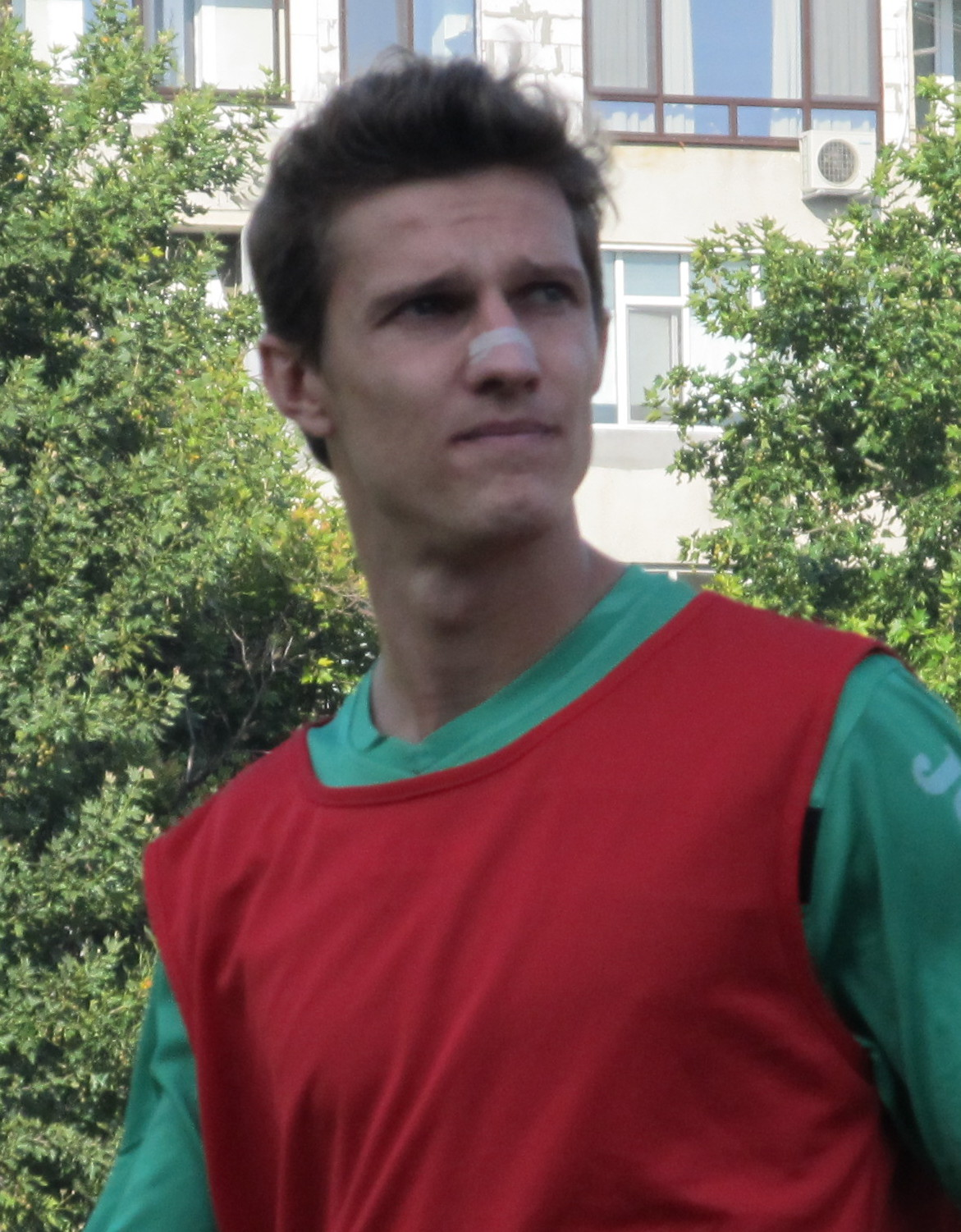 Brazilian footballer Edenilson Bergonsi